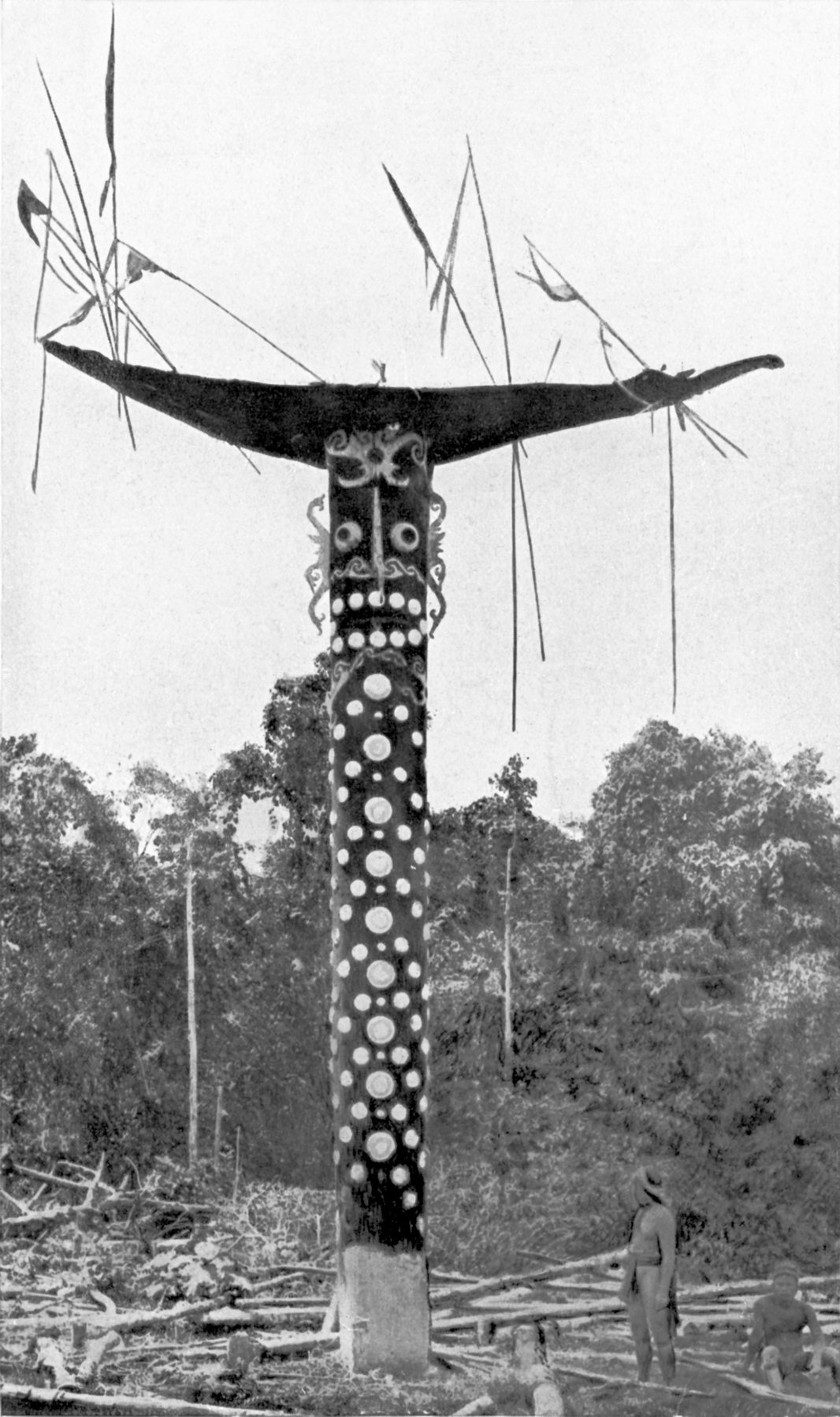 Tomb of a chief of the Long Patas (Klemantan).The white discs were formerly made of shell, but nowadays European crockery is used, and a German firm supplies dinner-plates provided with two perforations which facilitate the attachment of the plates.